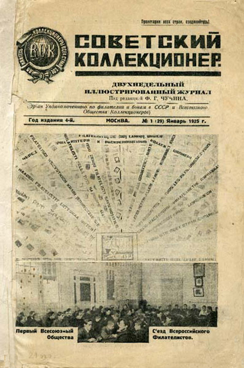 Russian philatelic magazine "Soviet Collectioner", 1925.